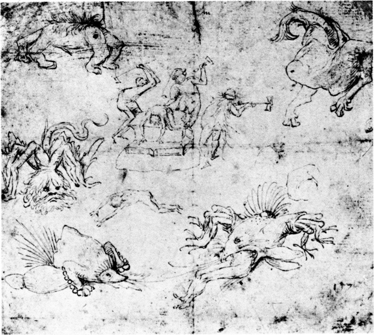 Front of a two-sided drawing. For the reverse, see File:Possibly Jheronimus Bosch 002 verso 01.jpg.